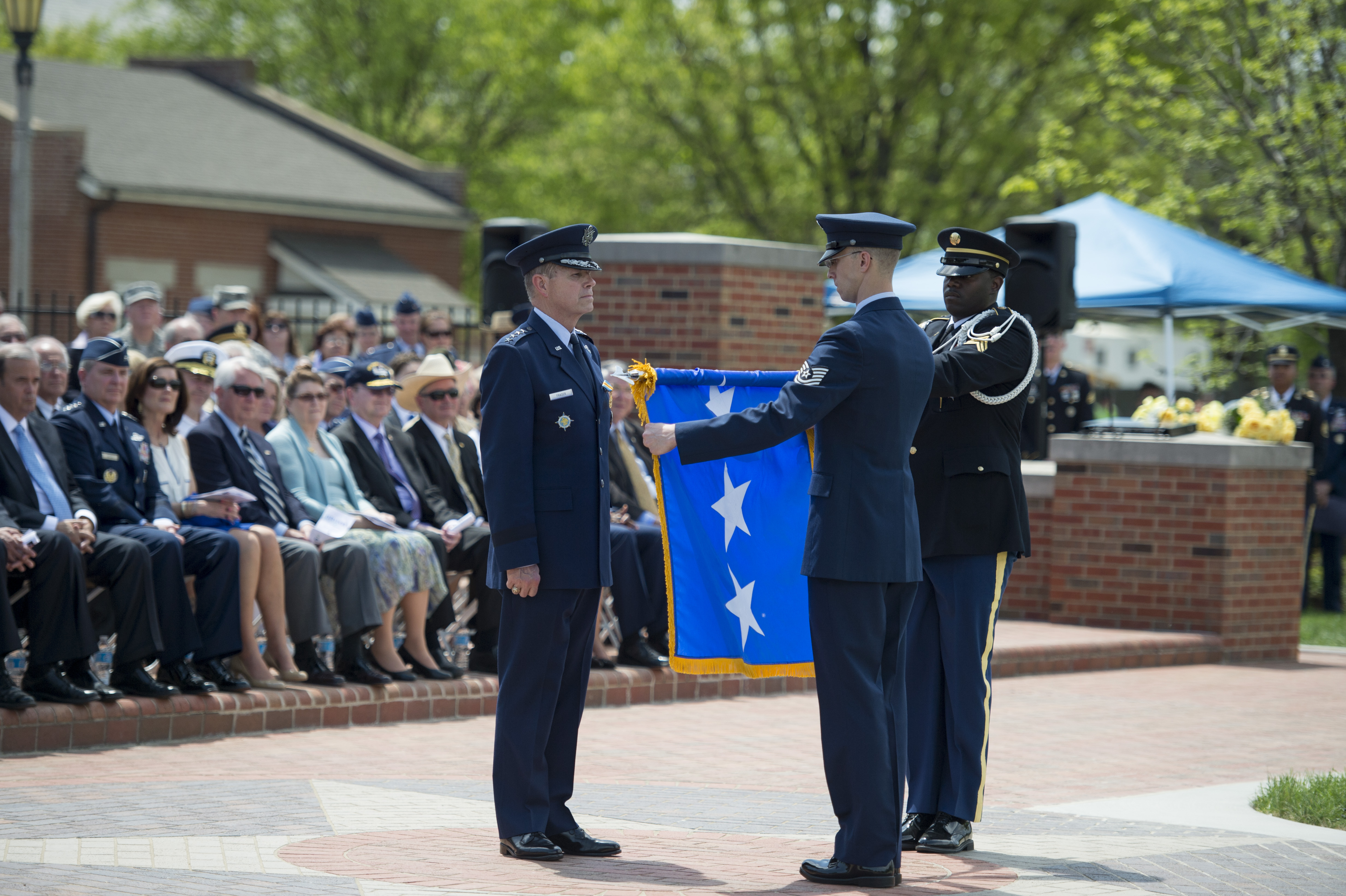 Gen. William M. Fraser III, the outgoing U.S. Transportation Command commander, stands as his flag is retired during his change of command and retirement ceremony on the parade field of Scott Air Force Base